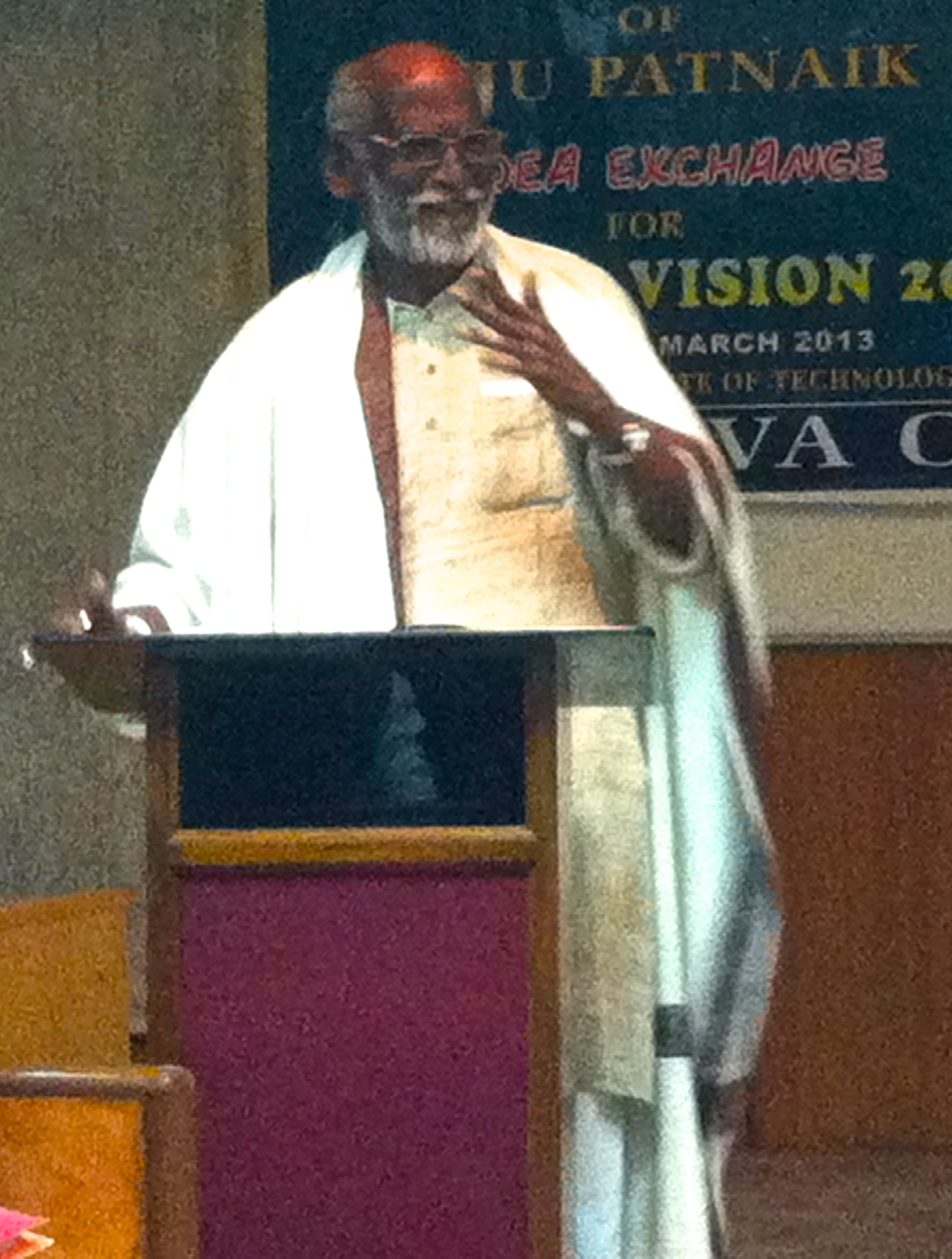 A.V.Swamy is a Social activist from Koraput, Odisha.